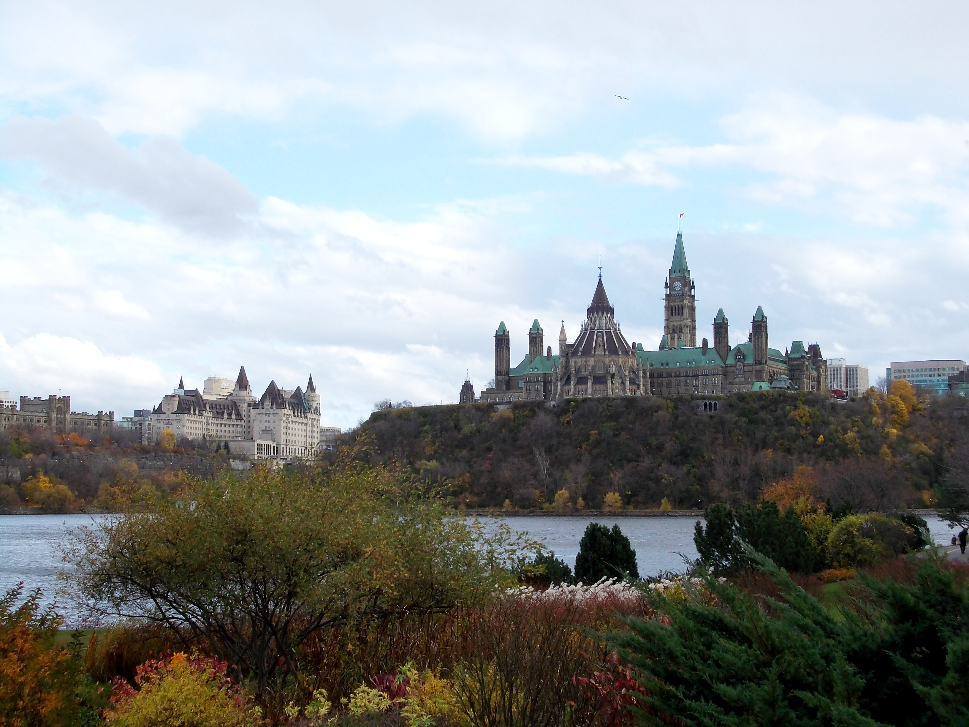 Parliament Hill (view from Gatineau)